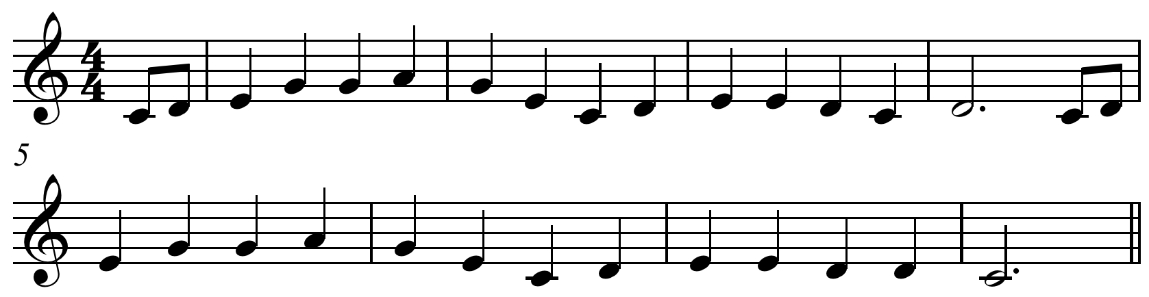 Example of music notation image creation, originally for User:Hyacinth/Sibelius_how_to#Producing_images